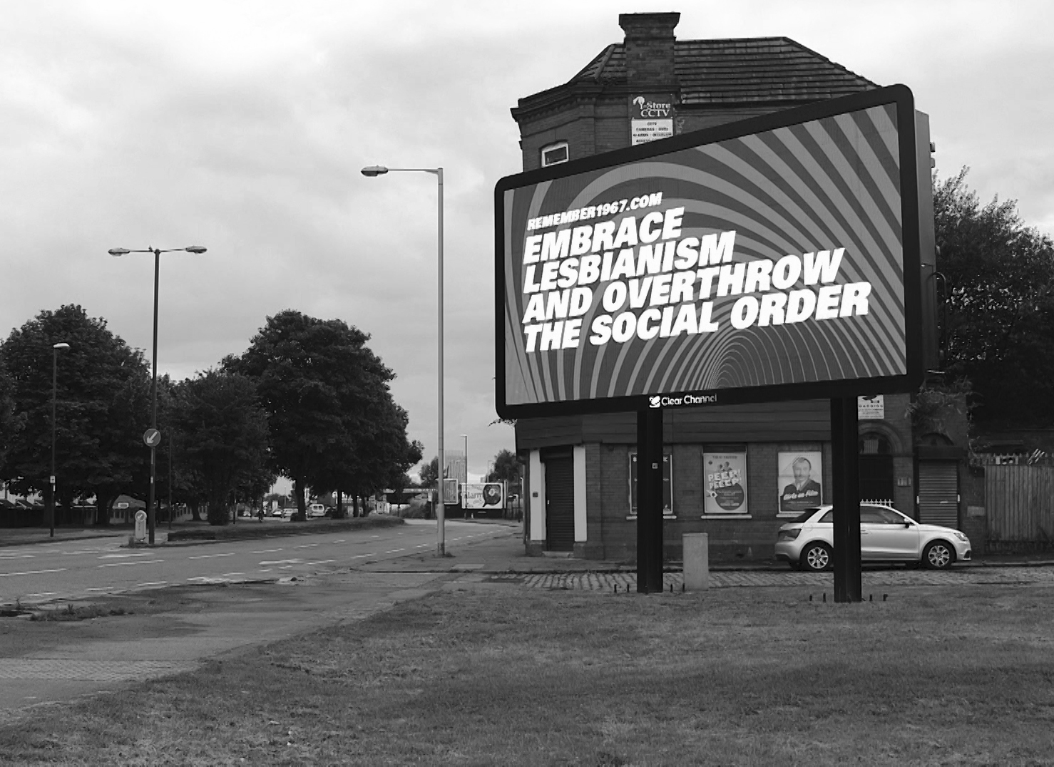 'Embrace Lesbianism and Overthrow the Social Order' is one of six public art posters created by artist Martin Firrell to mark the 50th anniversary of the 1967 Sexual Offences Act in England and Wales. The posters present demands made by 1960s activists that still warrant attention today. Radical feminists of the time believed the only way for a woman to escape patriarchal control was to adopt lesbianism and seek to overthrow the social pecking order that automatically places men at the top.